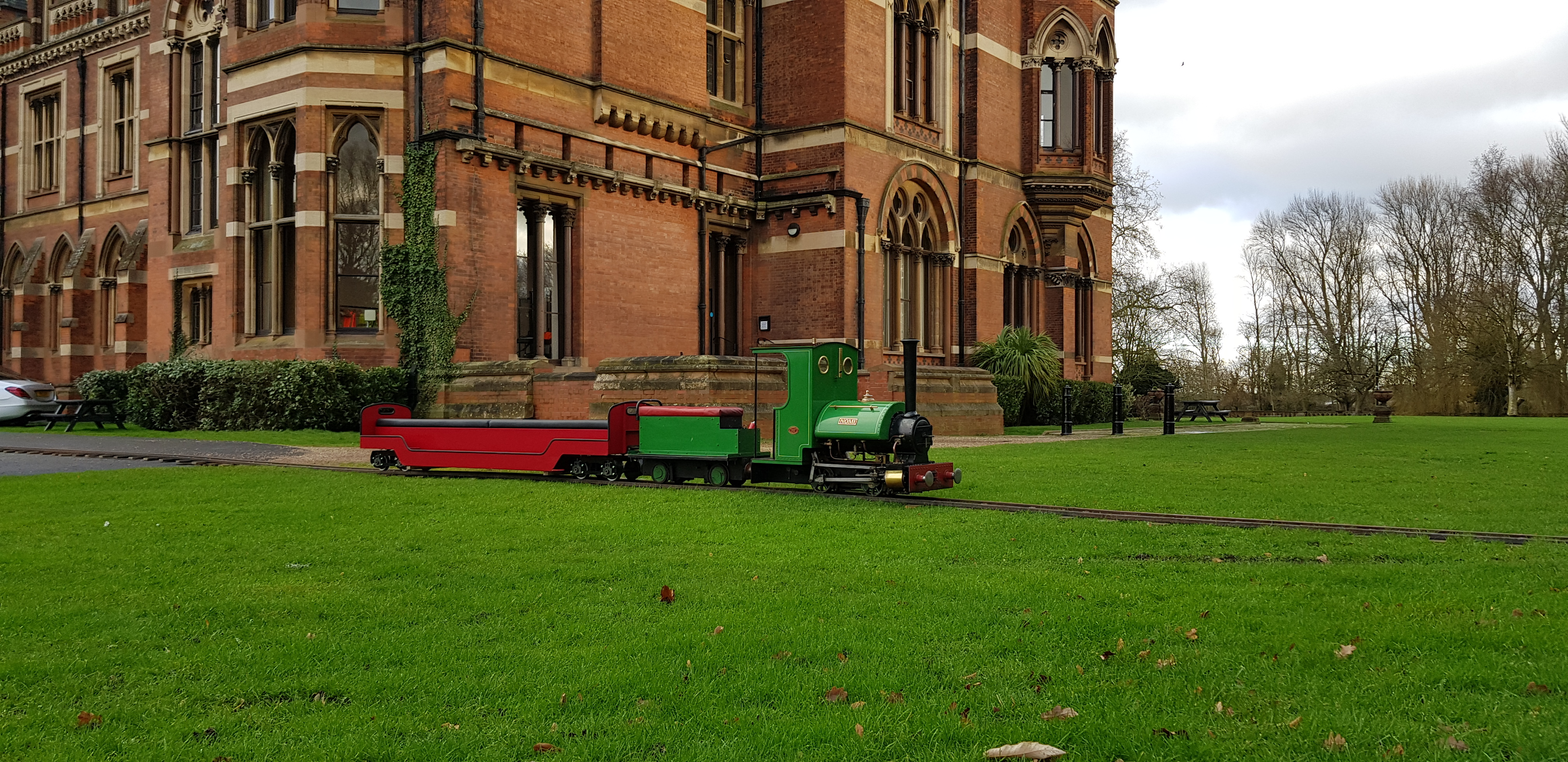 7.25 inch gauge Bagnall steam locomotive operating on the portable "There and Back Light Railway" at Kelham Hall